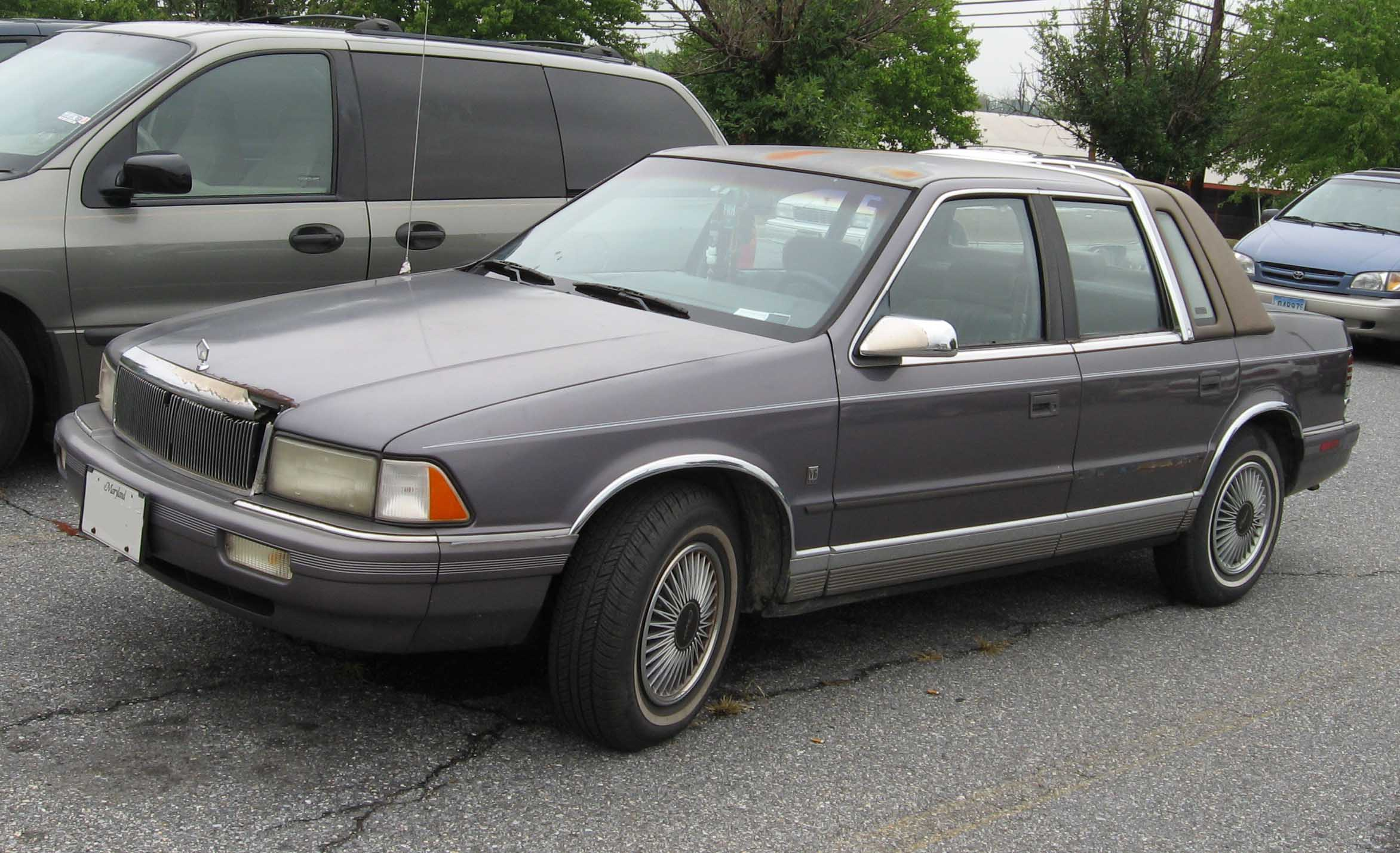 Chrysler LeBaron photographed in USA.